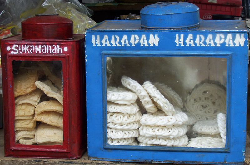 Traditional Indonesian crackers can